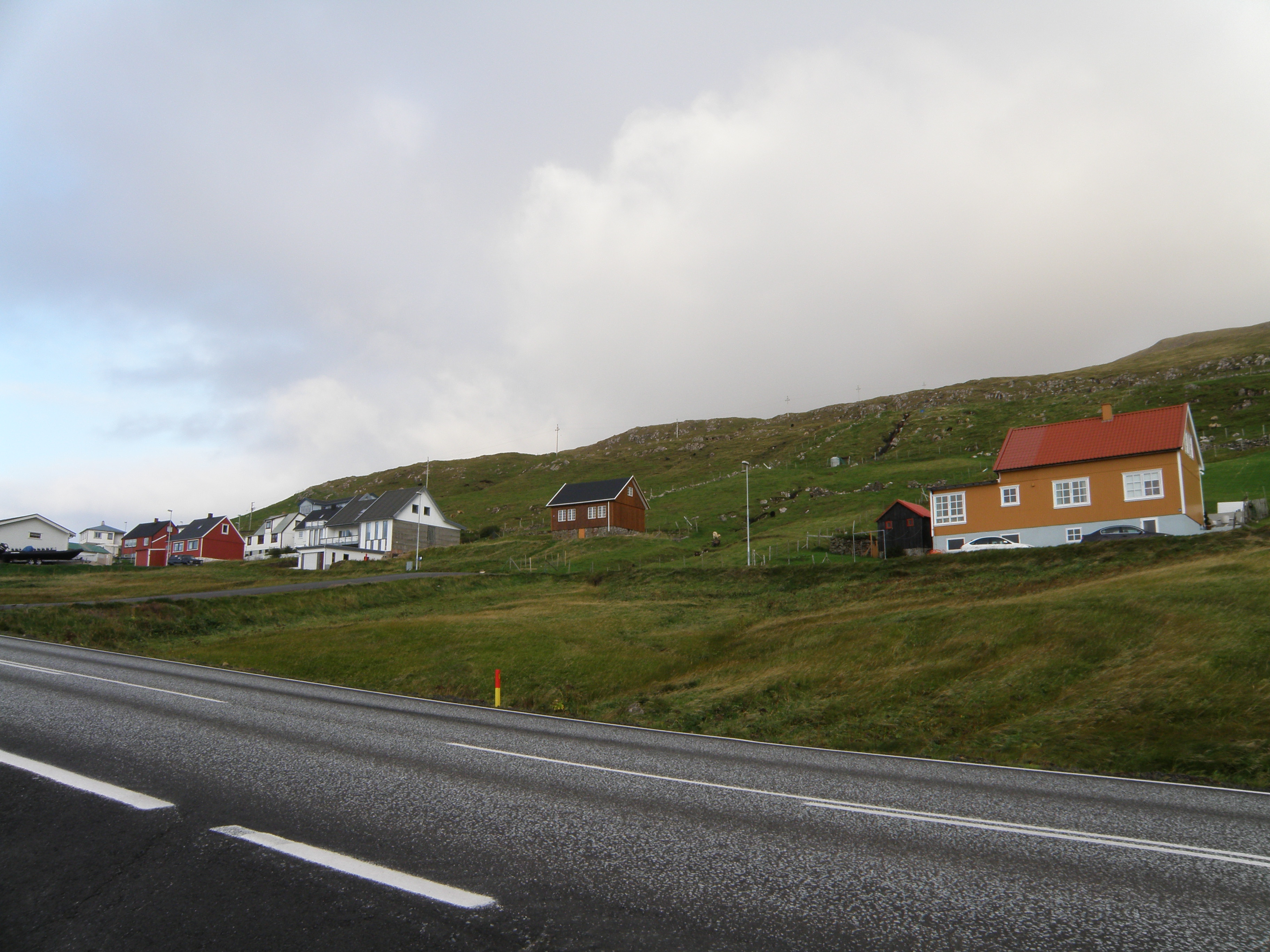 Nes, a small village in Suðuroy, Faroe Islands, between Porkeri and Vágur.